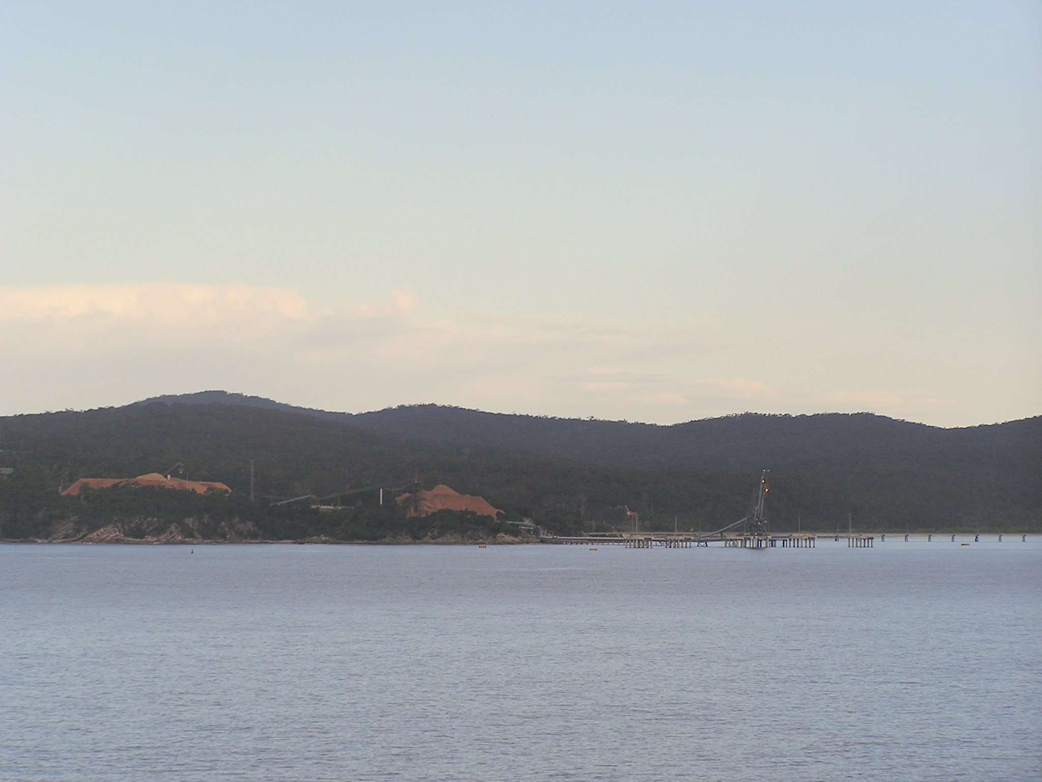 Twofold Bay - Eden, Australia view across to wood chip piles